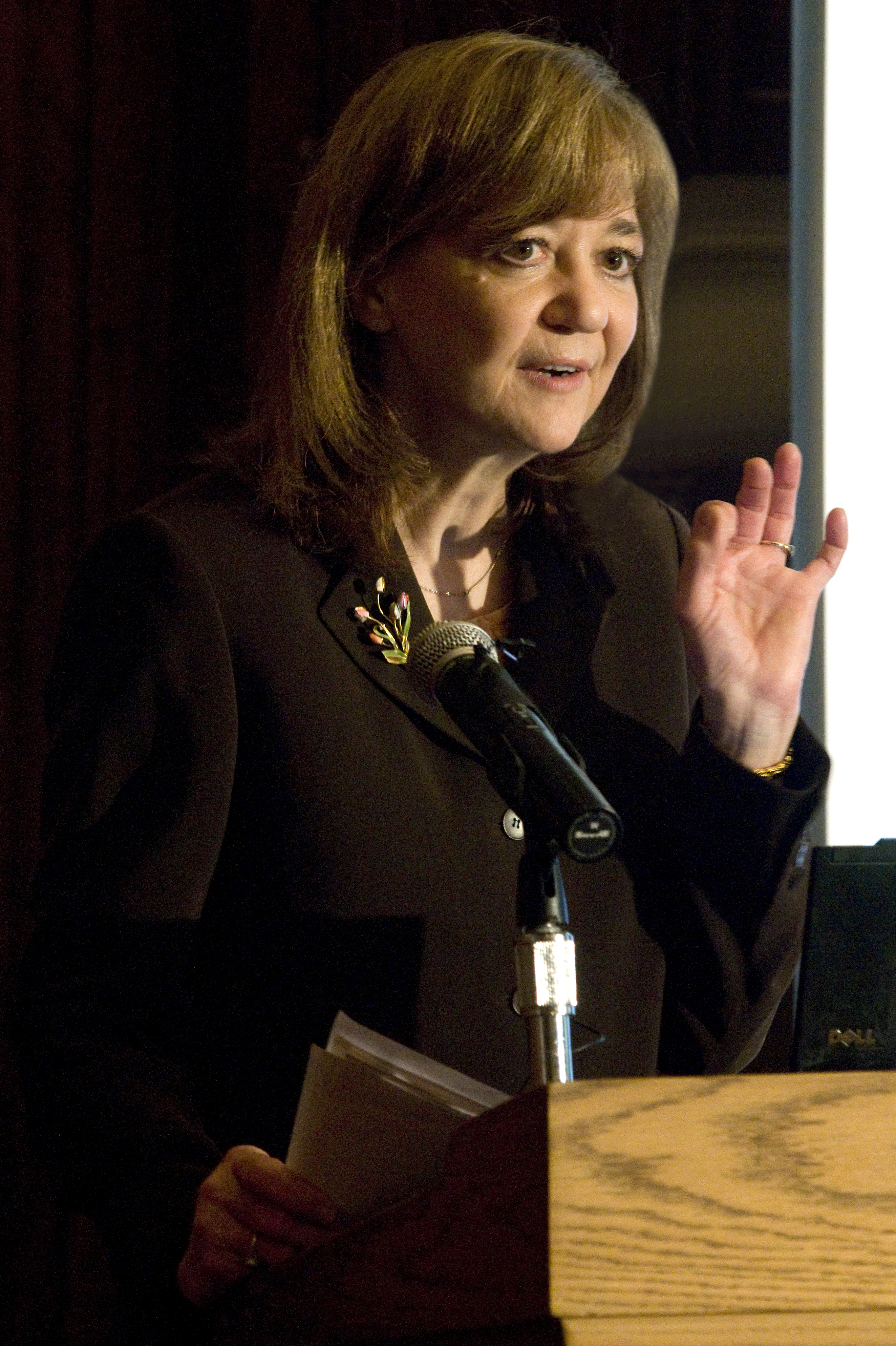 Dean Rosina M. Bierbaum lectures about development and climate change